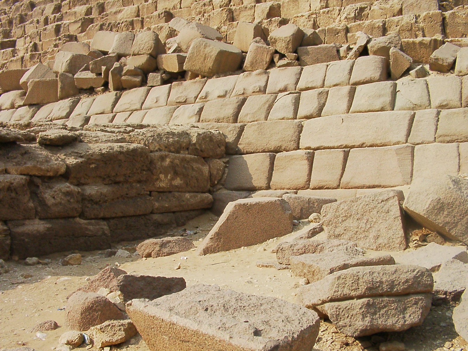 Menkaura's mortuary temple touches his piramyd's wall